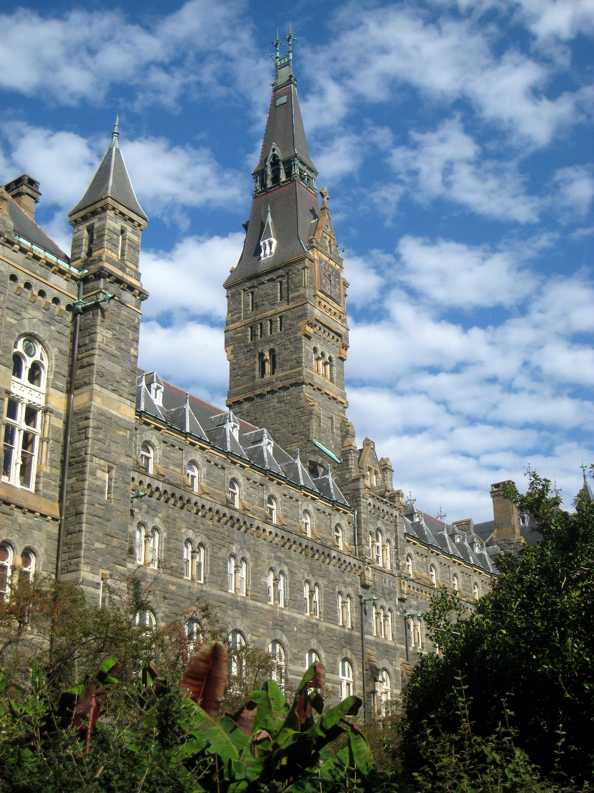 Georgetown University, Washington, DC, USA. Healy Hall.